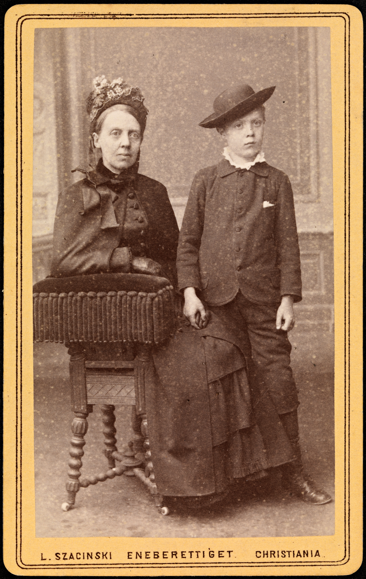 Tittel / Title: Fredrikke Qvam sammen med sønnen David Andreas Gram Qvam Motiv / Motif: Visittkort. Dato / Date: ca 1885 Fotograf / Photographer: L. Szacinski (Christiania) Sted / Place: Oslo Eier / Owner Institution: Nasjonalbiblioteket / National Library of Norway Lenke / Link: Bildesignatur / Image Number: blds_04502